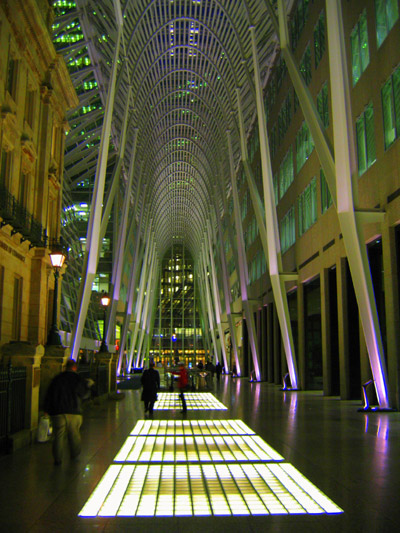 BCE Place Galleria in Toronto, Canada, designed by Santiago CalatravaToronto BCE Place @ night